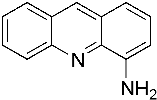 chemical structure of 4-aminoacridine